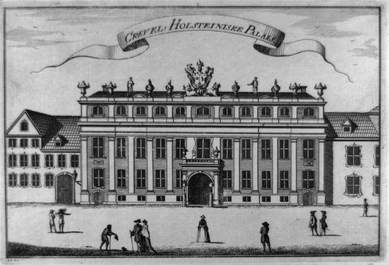 Town house of count Johan Ludvig Holstein in Stormgade, Copenhagen. Engraving from Den Danske Atlas by Erik Pontoppidan (1698-1764)